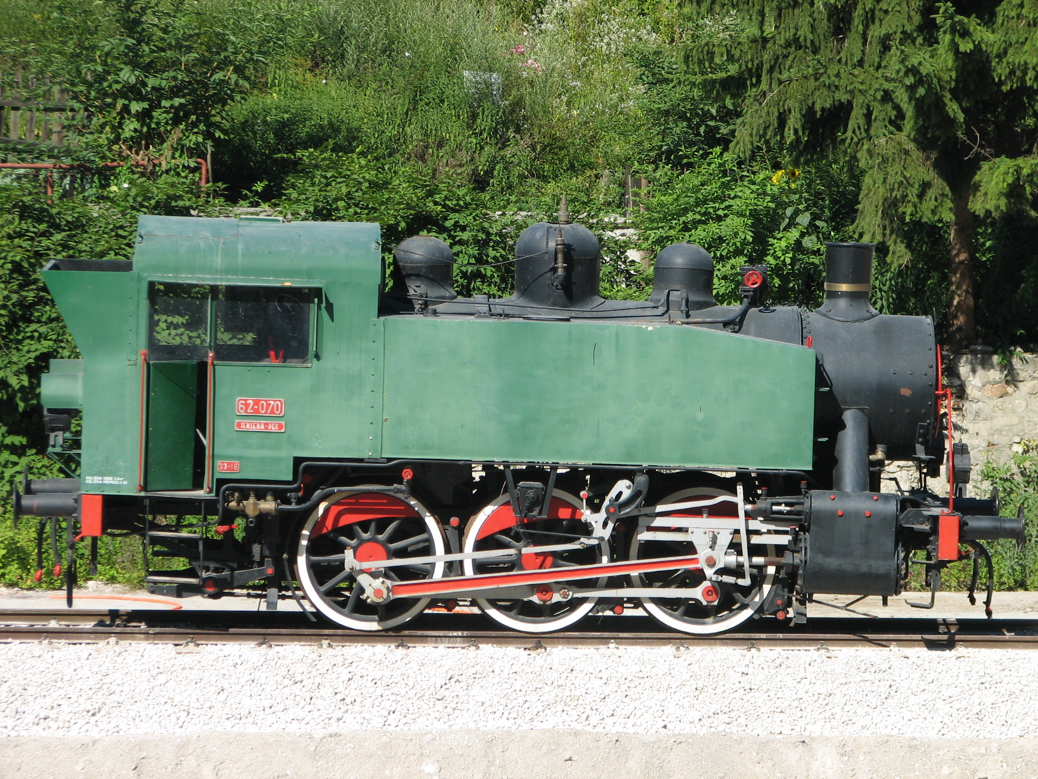 62-070 USATC 6171 (C n2t 0-6-0, VIW 4541/44) steam locomotive that served coal mine in Zagorje ob Savi, Slovenia